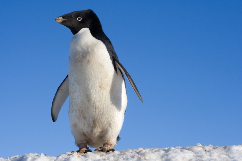 Adelie Penguin